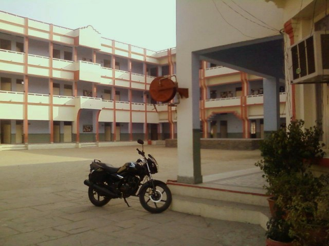 self clicked picture of the campus